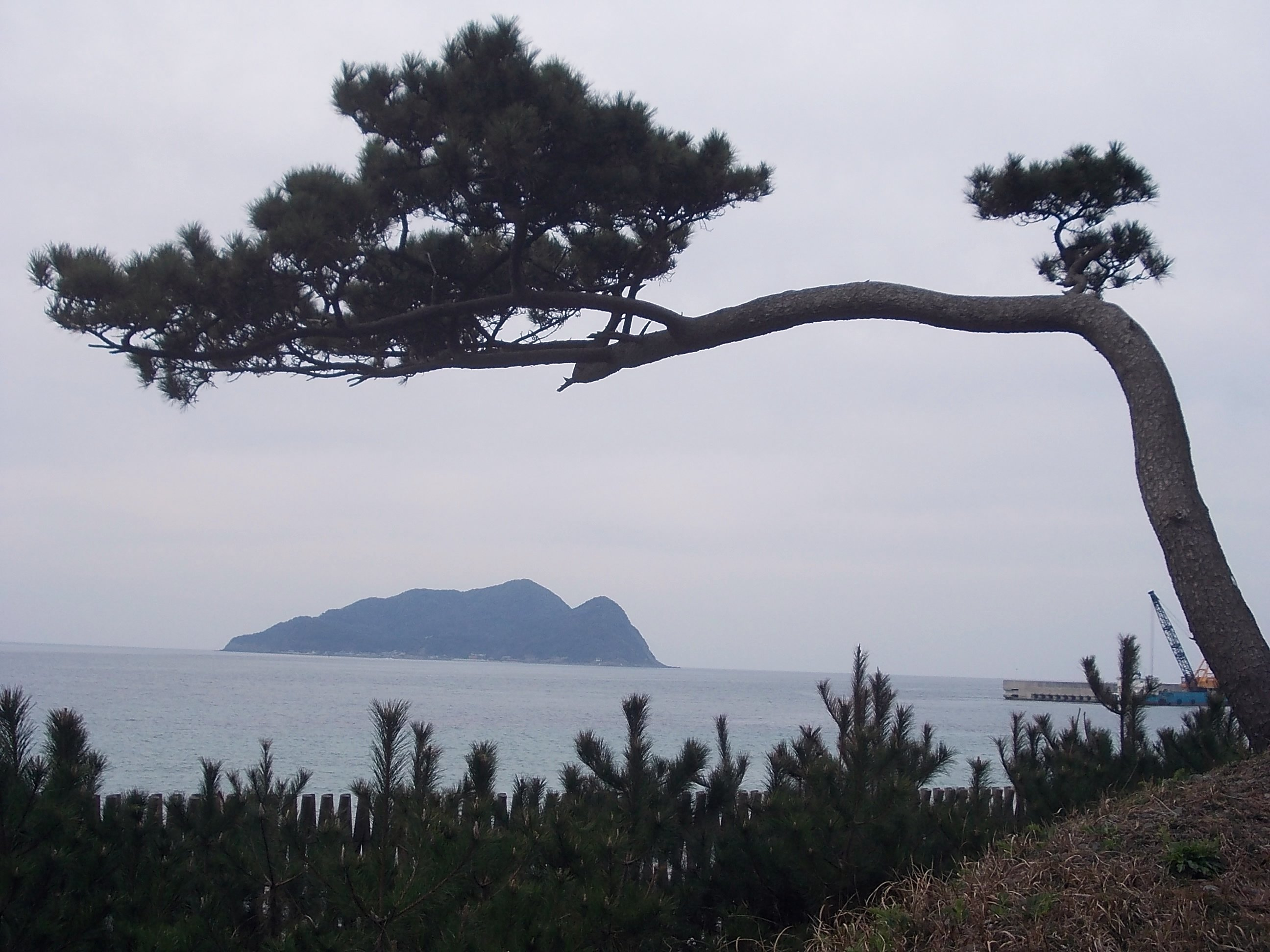 A big pine tree on the coast of Satsuki-matsubara against Jinoshima Island (Munakata, Fukuoka) on the Genkai-nada Sea.